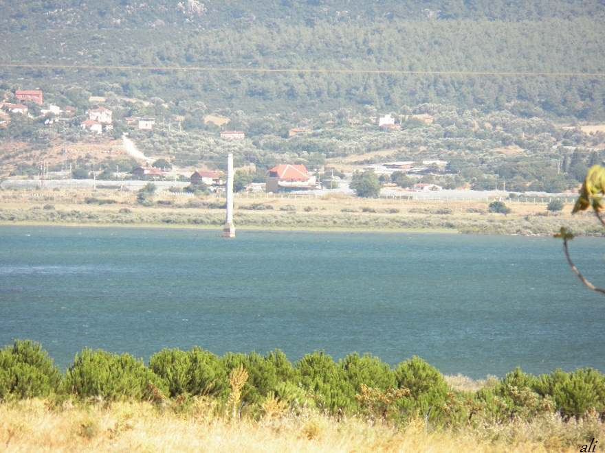 Tahtalı dam and reservoir in İzmir